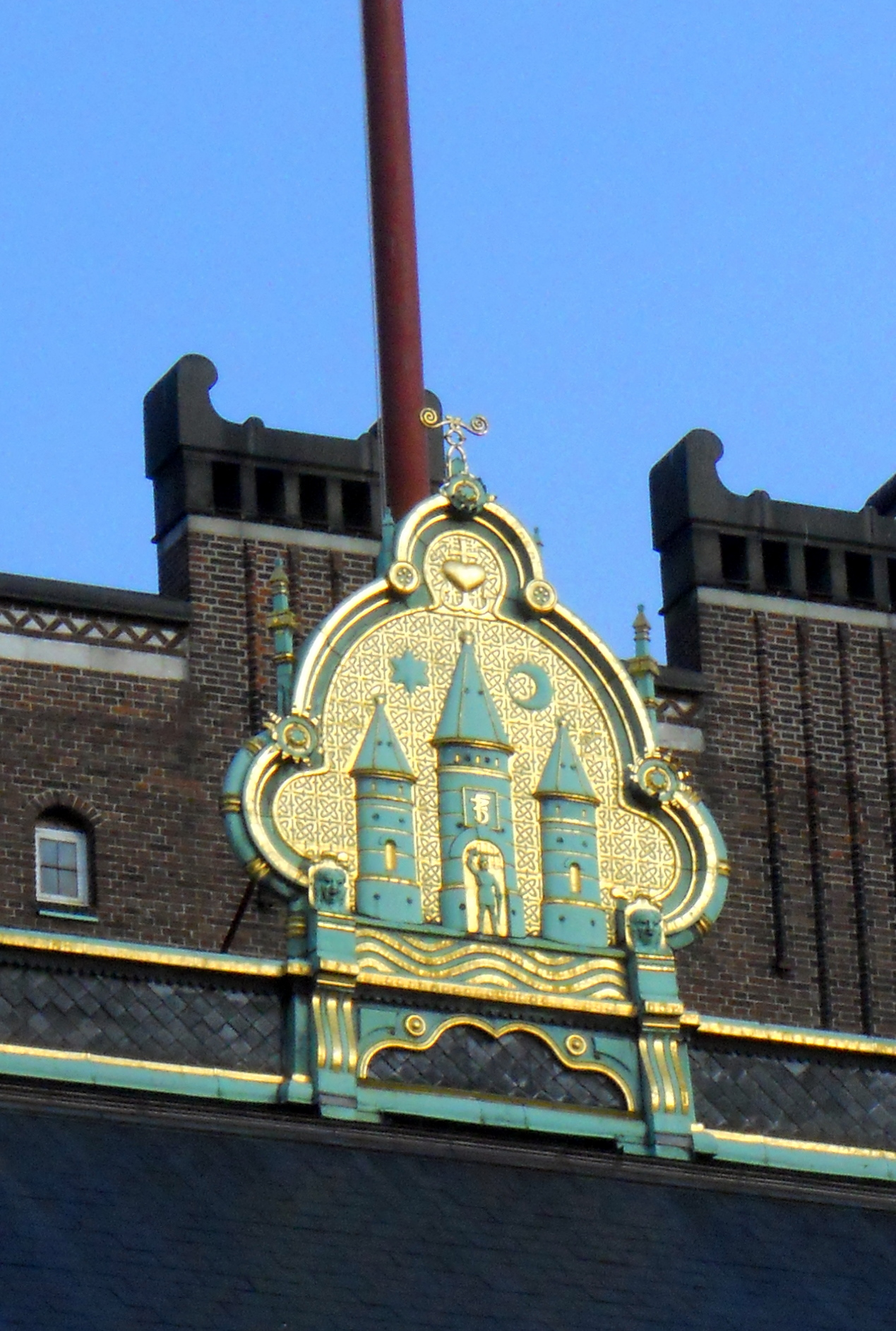 Coat of arms of Copenhagen, Denmark, at Copenhagen City Hall.